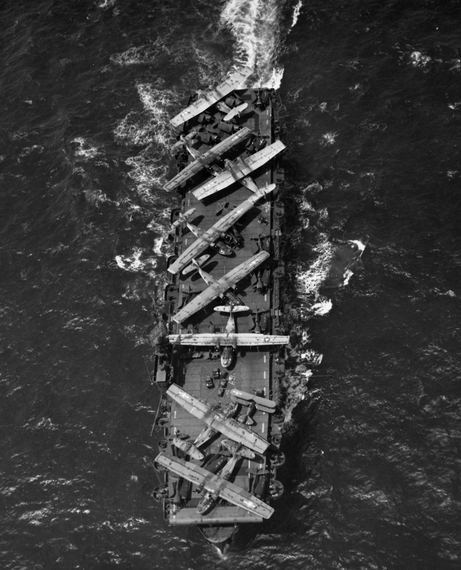 The U.S. escort carrier USS Thetis Bay (CVE-90)enroute to NAS Alameda, California with a deckload of war-weary planes in 1944. The planes visible on deck are eight Consolidated PBY Catalina flying boats, 18 Grumman F6F Hellcat fighters, and a Grumman J2F "Duck" amphibious biplane.